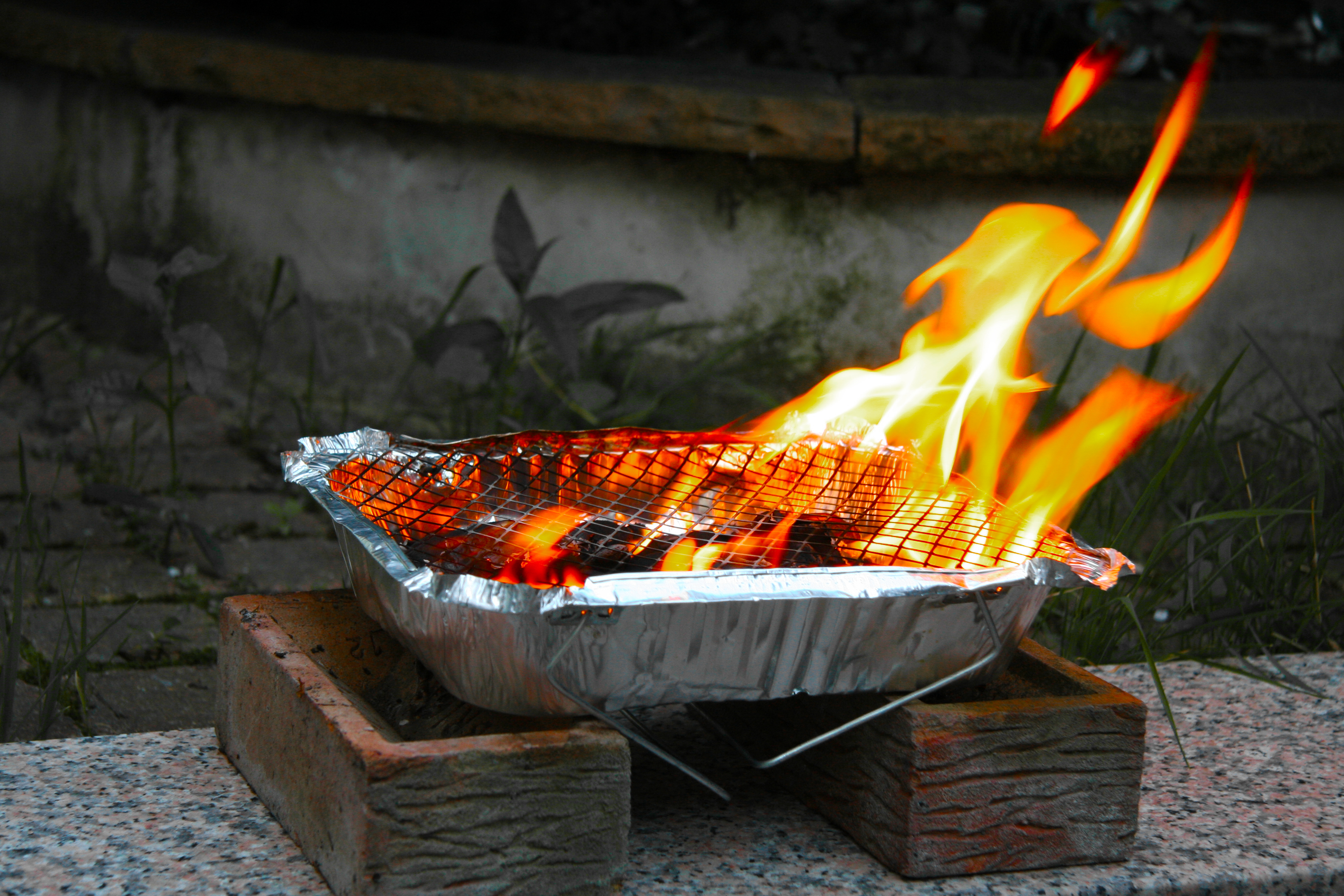 Disposable Barbecue, commonly available in supermarkets around UK.